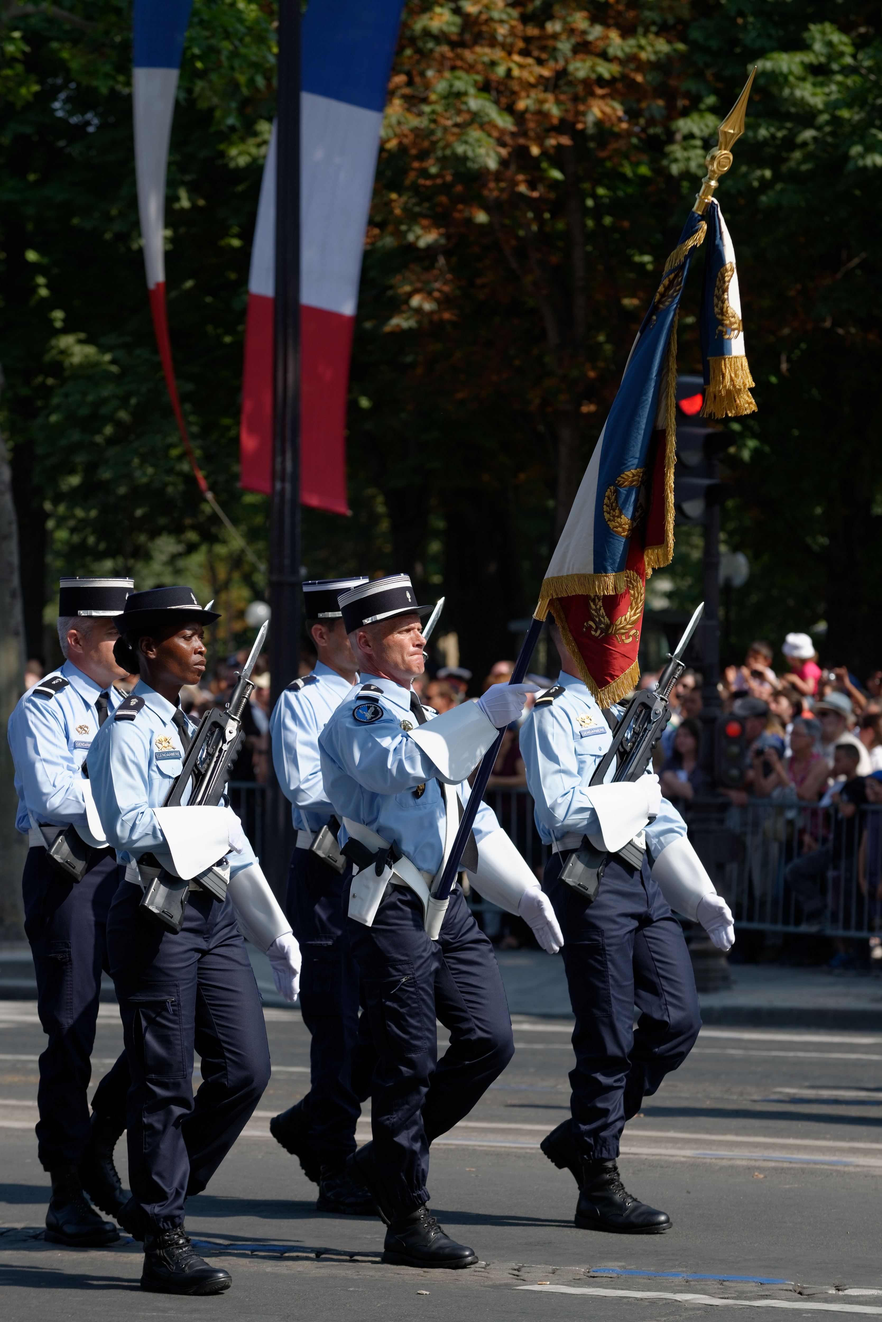 Colour guard of the Air Transport Gendarmerie in the Bastille Day 2013 military parade on the Champs-Élysées in Paris.